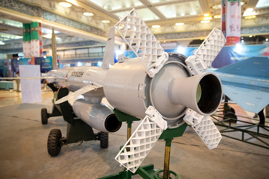 Rear view of a Hoveizeh cruise missile at the Eqtedar 40 defence exhibition in Tehran.